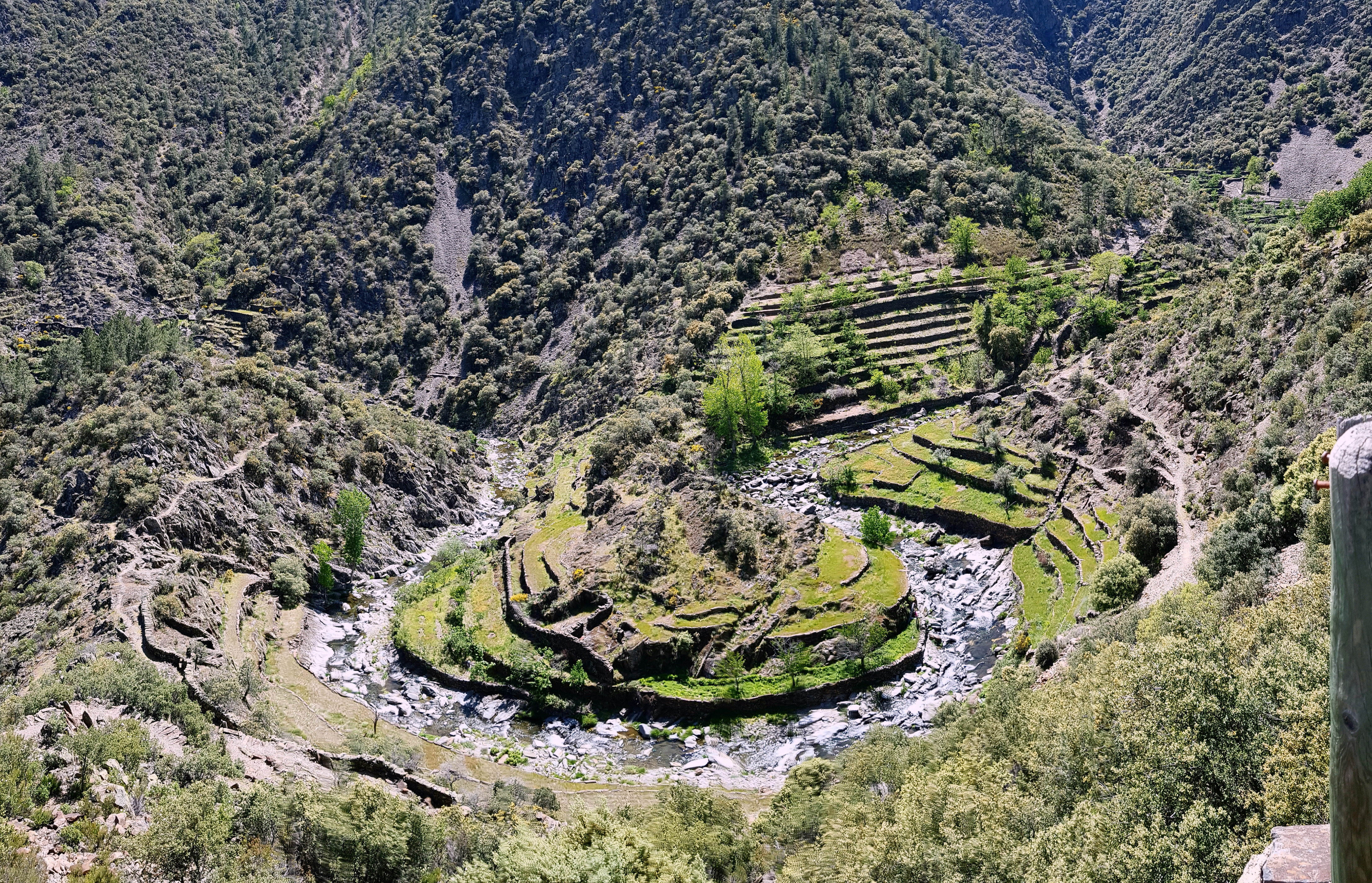 Las Hurdes is a natural area located north of the province of Cáceres, on the southern slope of the Sierra de Francia (western sector of the Spanish Central System). It is characterized by an abrupt relief, developed in Paleozoic materials, fundamentally metasedimentary. The fluvial network makes a strong fit in this substrate giving rise to singular spaces of high landscape and ecological value. This is a photography of a Special Area of Conservation in Spain with the ID: ES4320011. Natura2000 entry, EEA entry